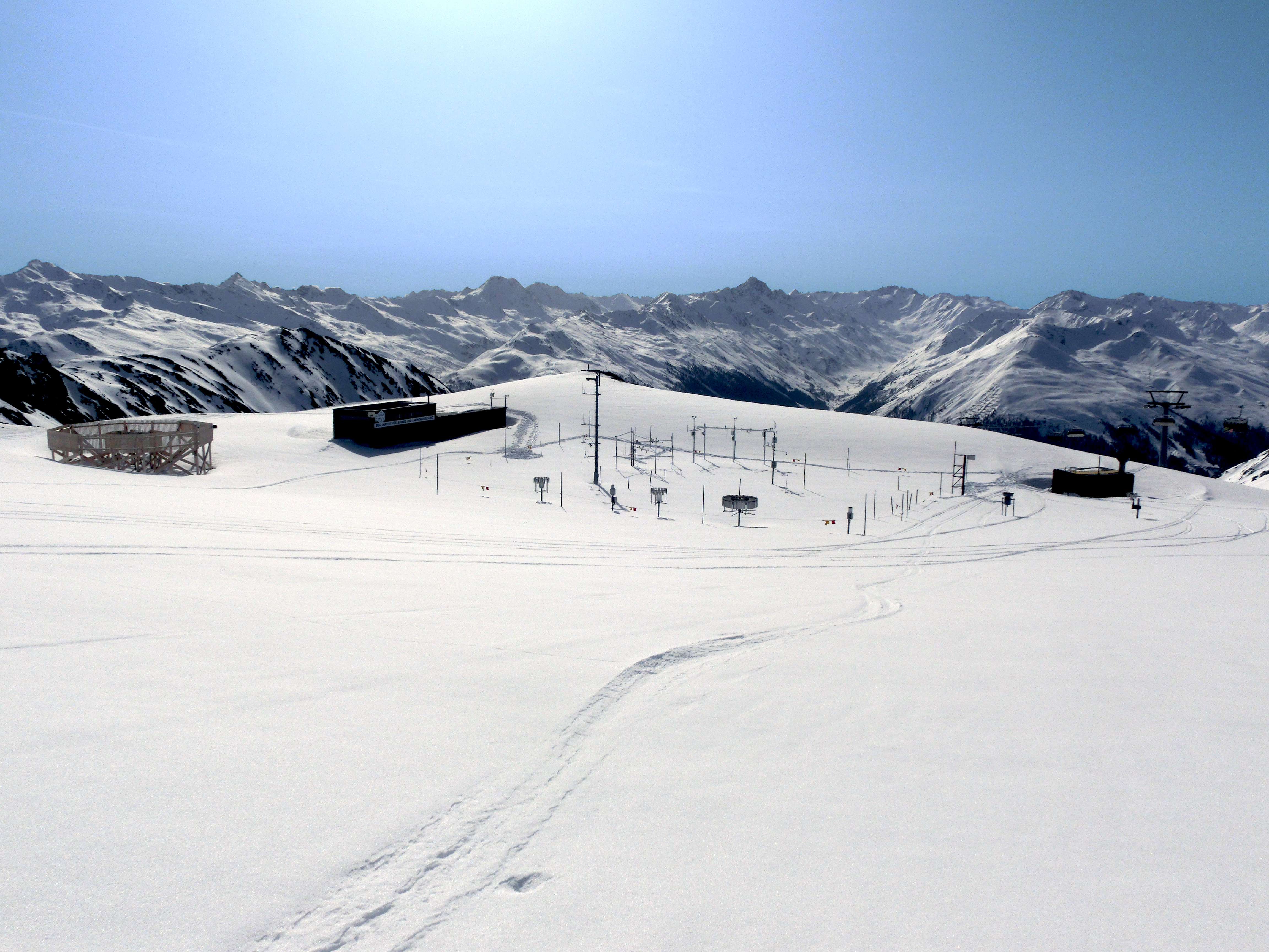 Test area of WSL Institute for Snow and Avalanche Research SLF, Weissfluhjoch, Davos.